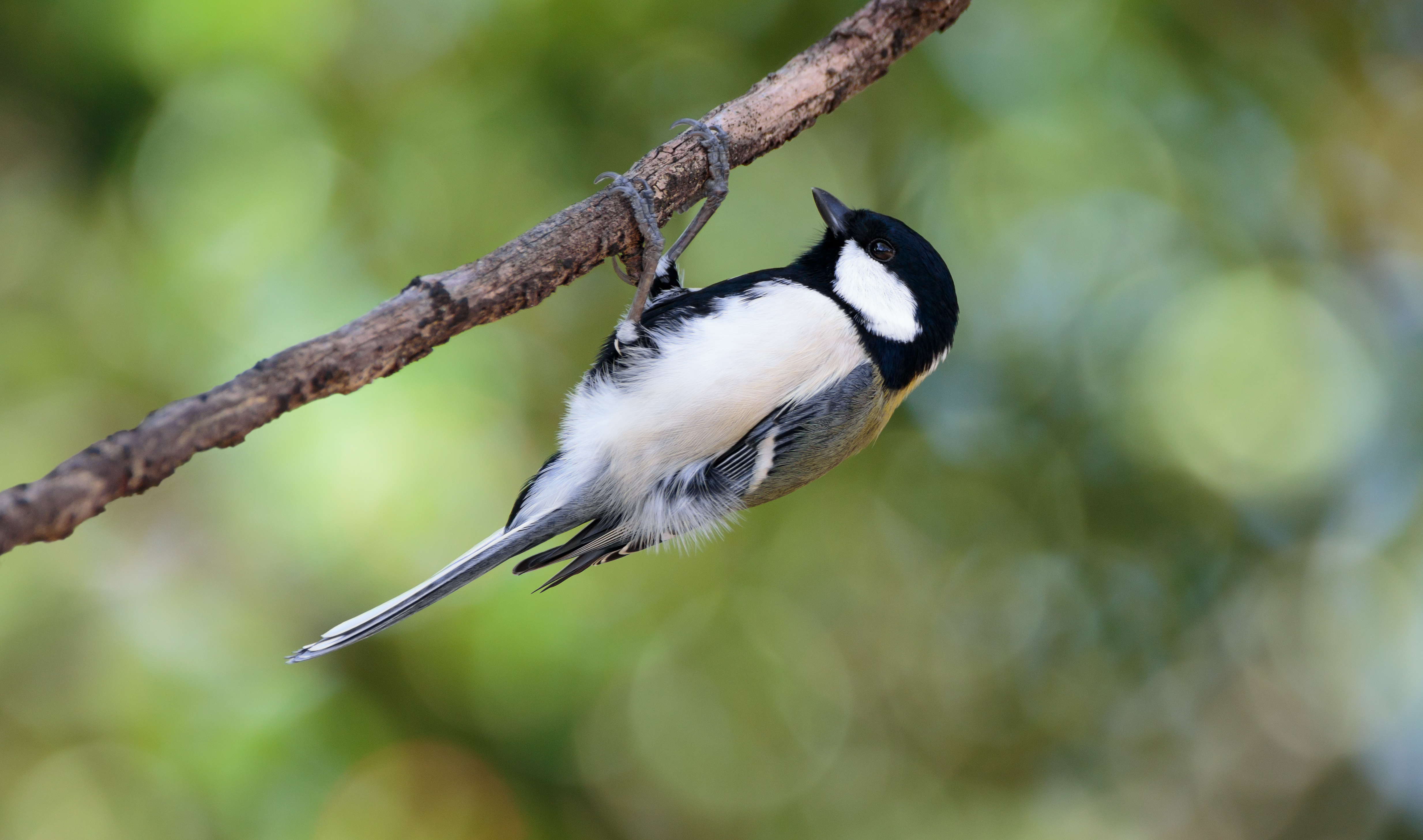 Japanese tit in Suita, Osaka.